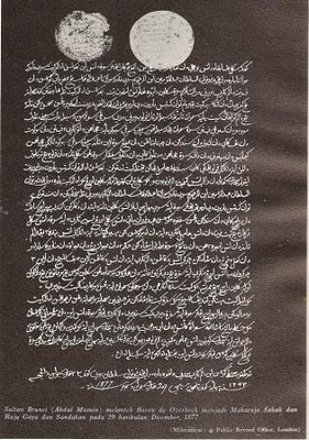 Concession of Sabah by the Sultan of Brunei to Gustav Overbeck, December 20th, 1877